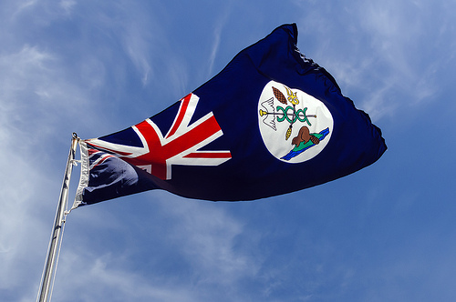 Modern nylon flag of Vancouver Island flying from a flagpole